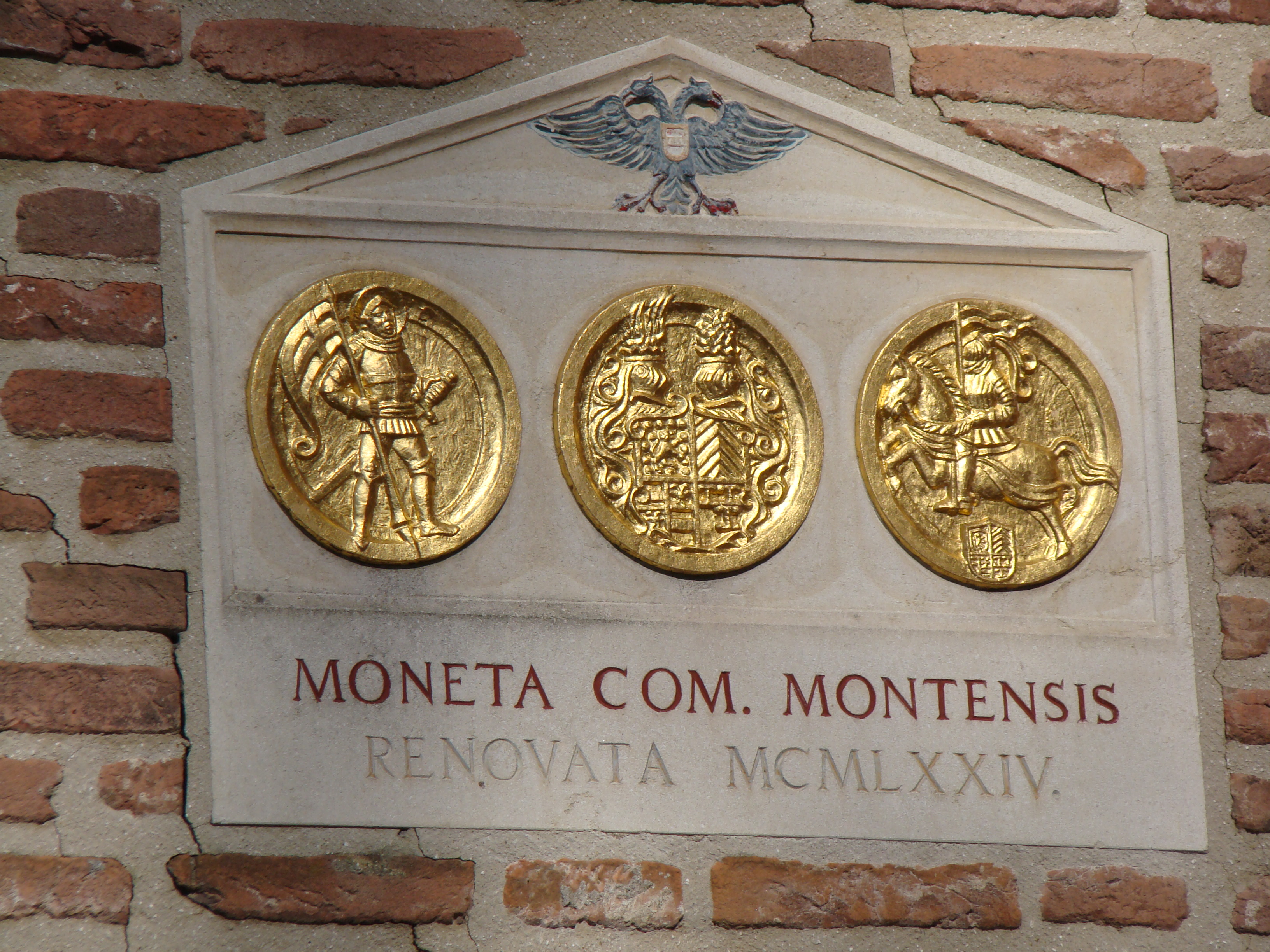 Mint Castle Bergh, 's Heerenberg. Netherlands